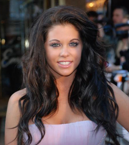 Bianca Gascoigne at the State of Play premiere at Leicester Square.